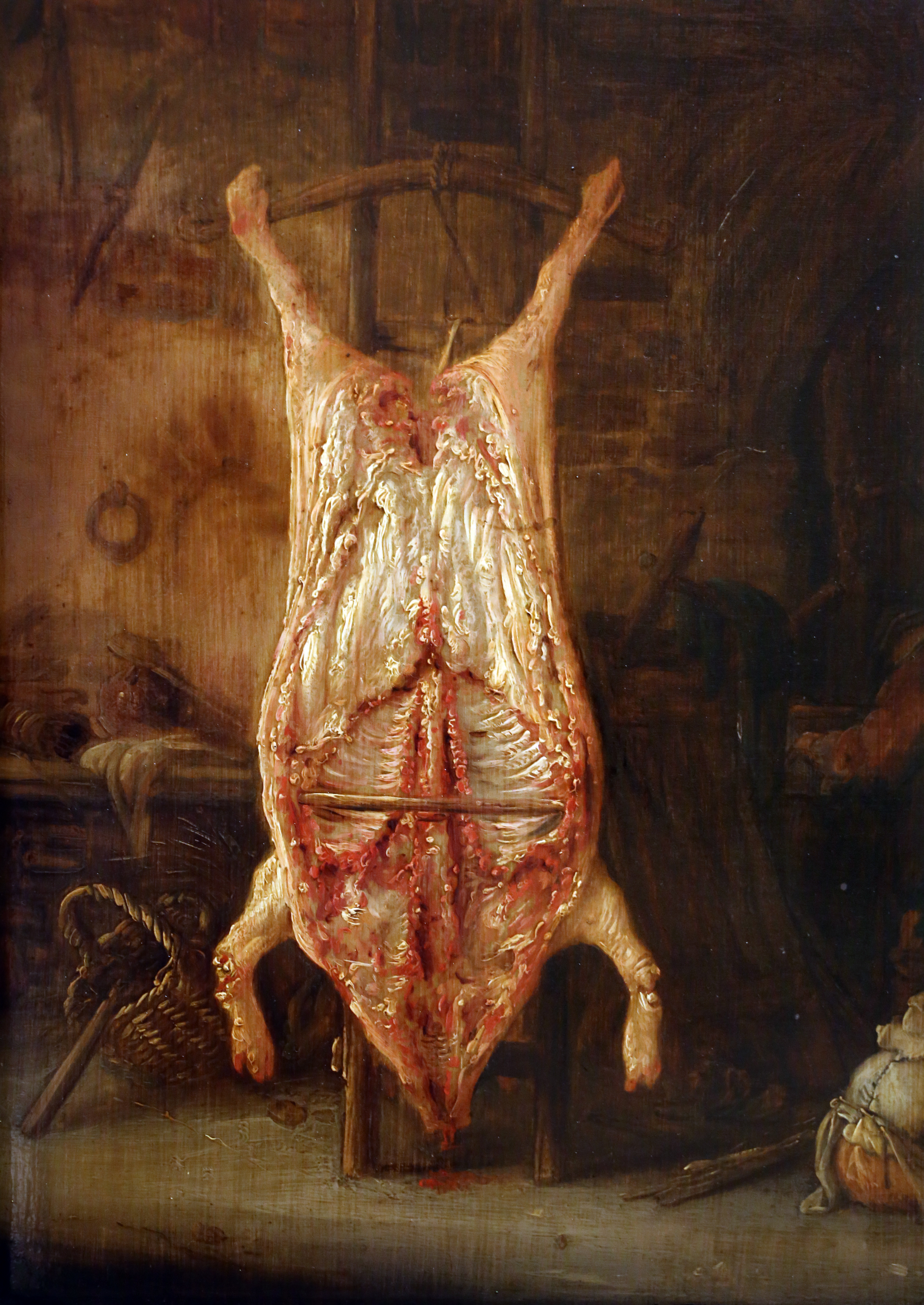 Dutch Golden Age paintings in the Frans Hals Museum